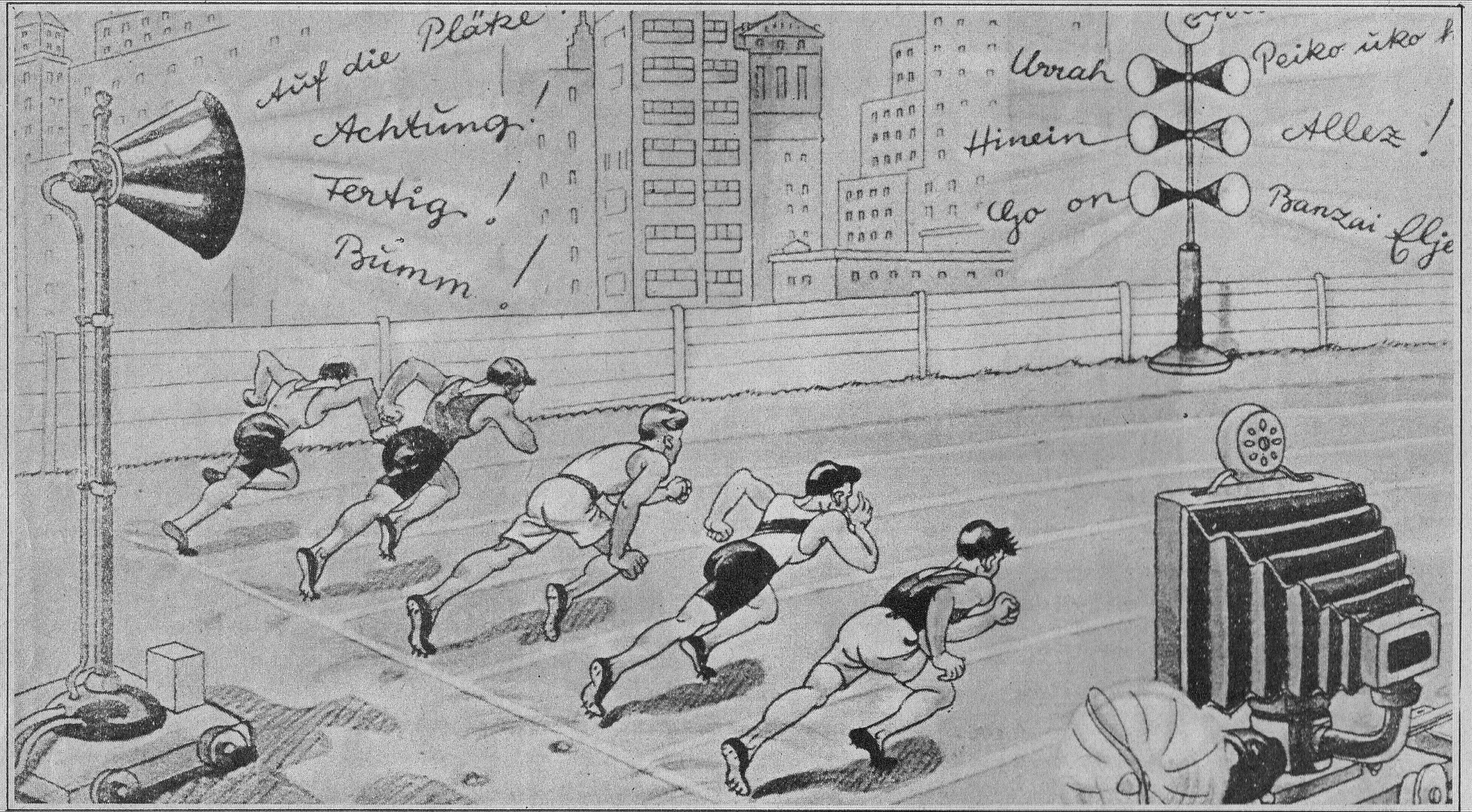 A humorous cartoon from the 1936 Berlin Olympics envisages the year 2000. Television technology has progressed to the point where spectators can watch events at home while radio, applying "wireless" technology, carries their promptings and applause to loudspeakers in the stadium. It appeared in the Olympia-Sonderheft of the Berliner Illustrierte Zeitung.